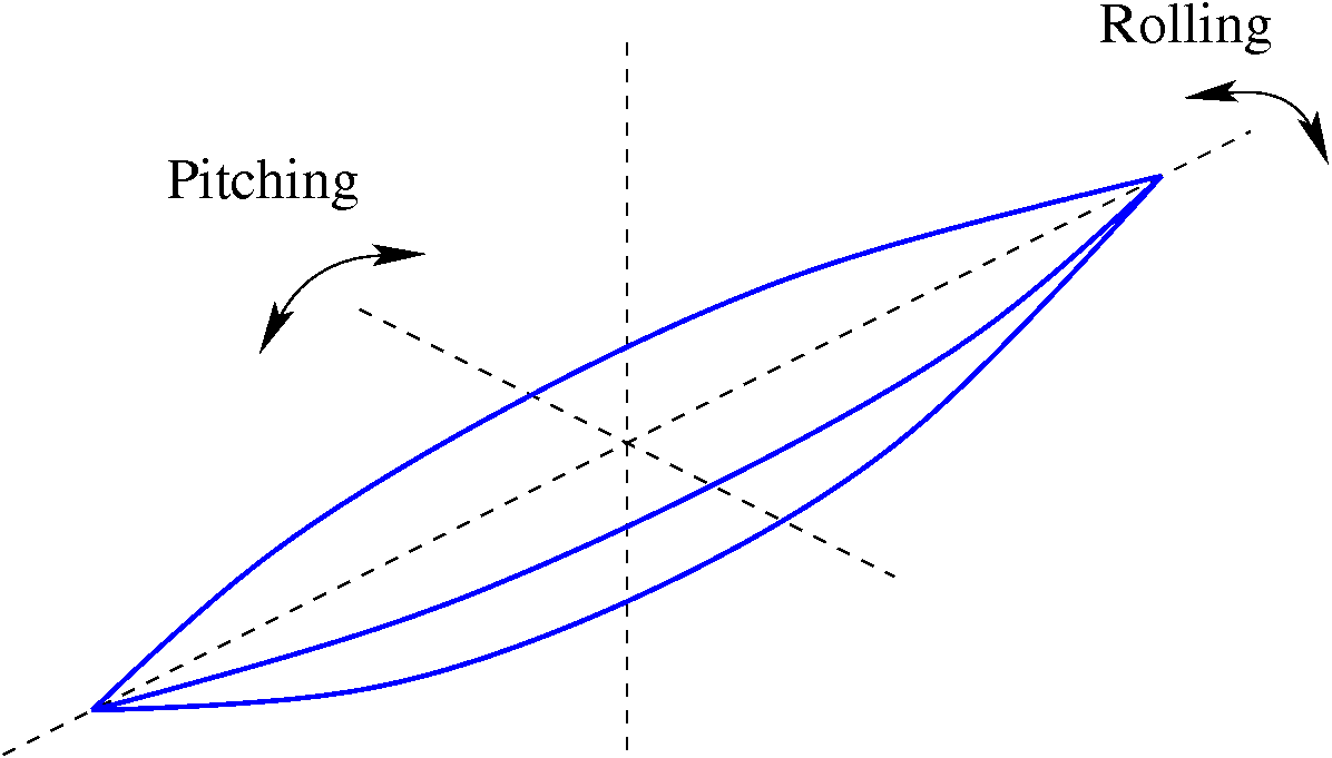 Author: J. Etienne